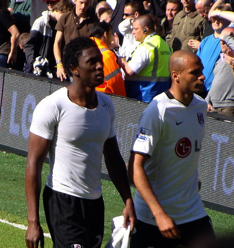 Dickson Etuhu and Diomansy Kamara of Fulham